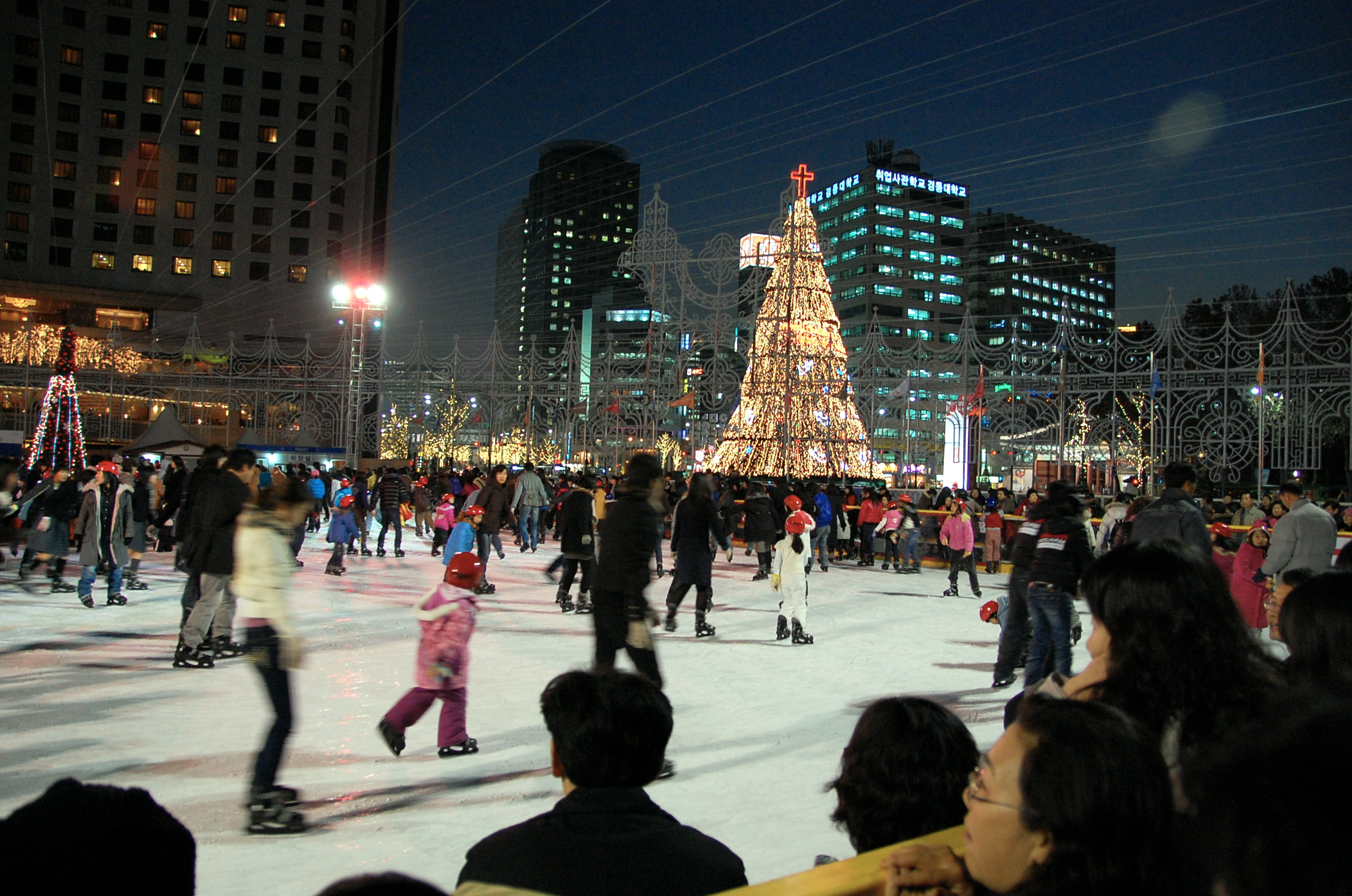 City Hall ice rink in Seoul, South Korea